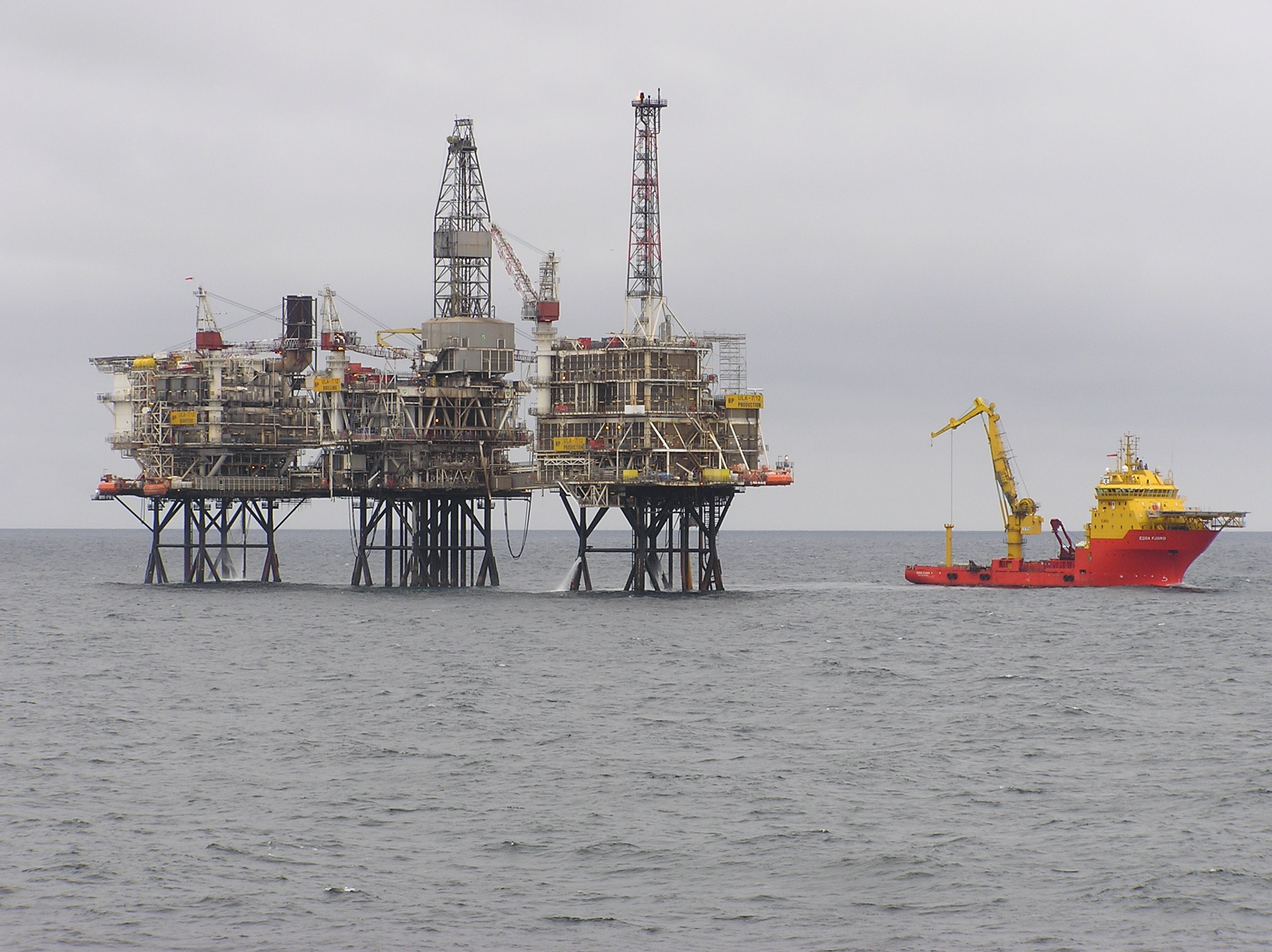 Edda Fjord attempting to tow away the ULA platform